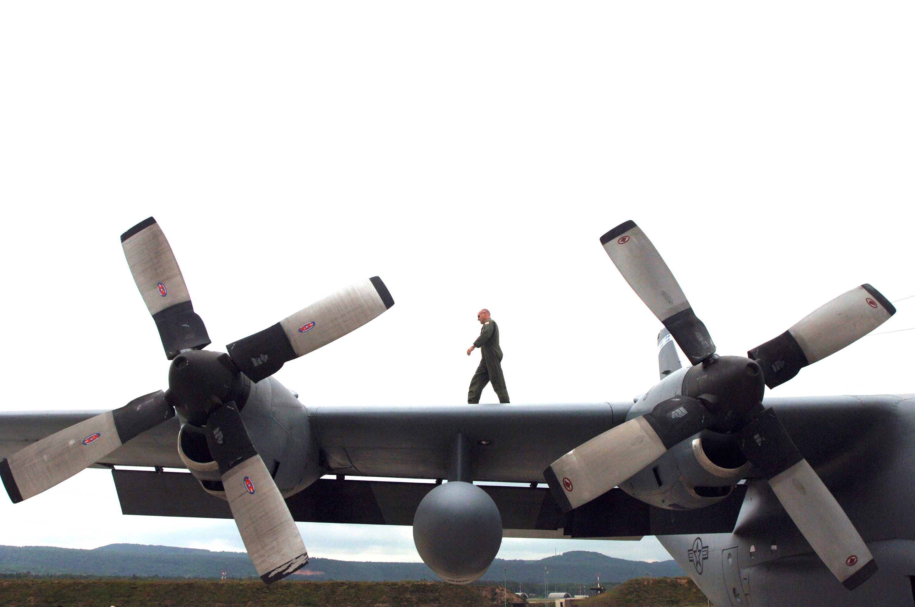 Technical Sergeant Jeff McCombs walks the wing of a C-130 Hercules at Ramstein Air Base, Germany, on Monday, June 5, 2006. Sergeant McCombs is an aircraft engineer with the 37th Airlift Squadron.